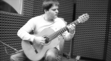 Author, Yalil Guerra, Source: Yalil Guerra